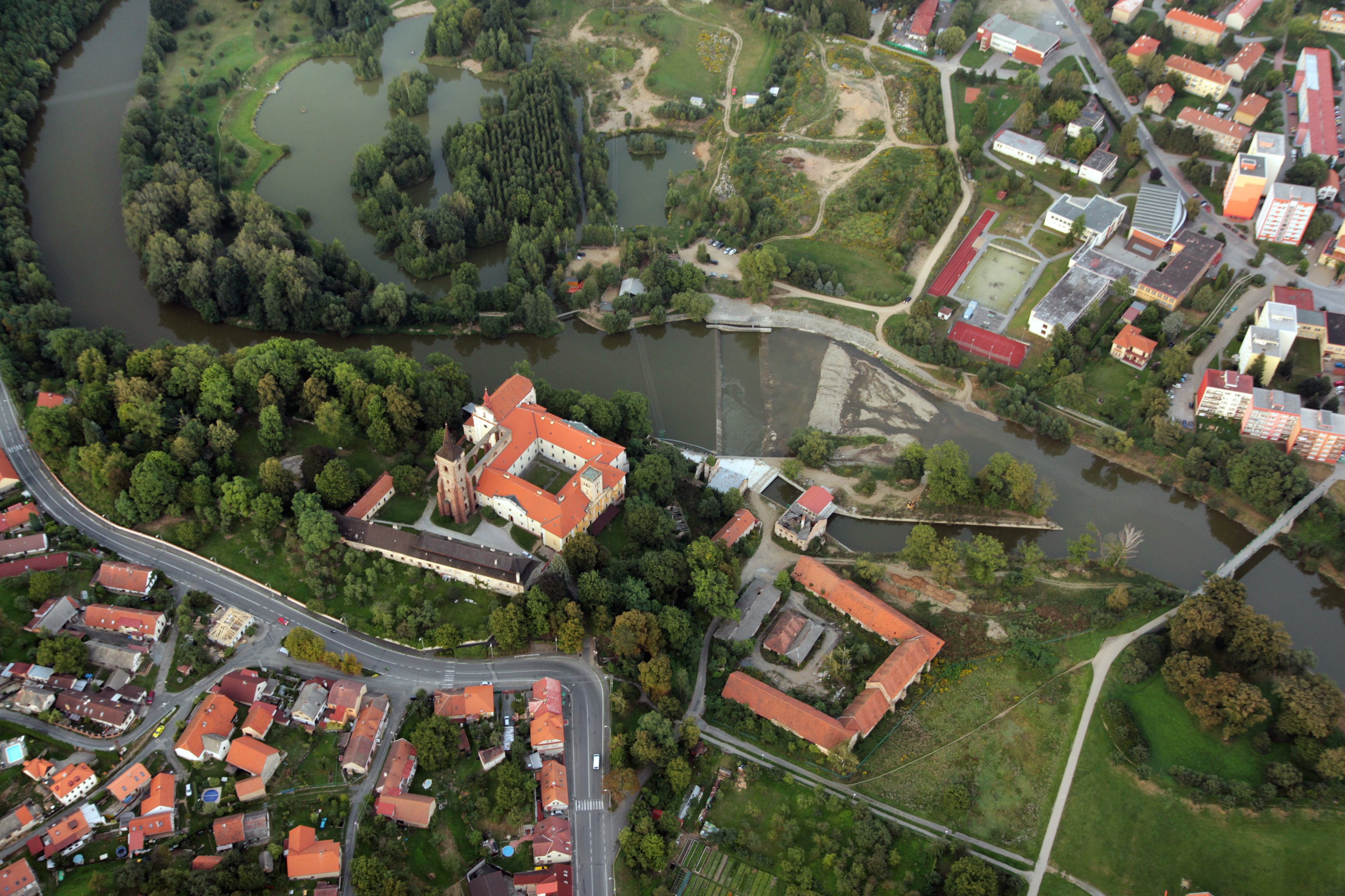 Aerial view of Sázava Monastery in Sázava (Benešov District) town